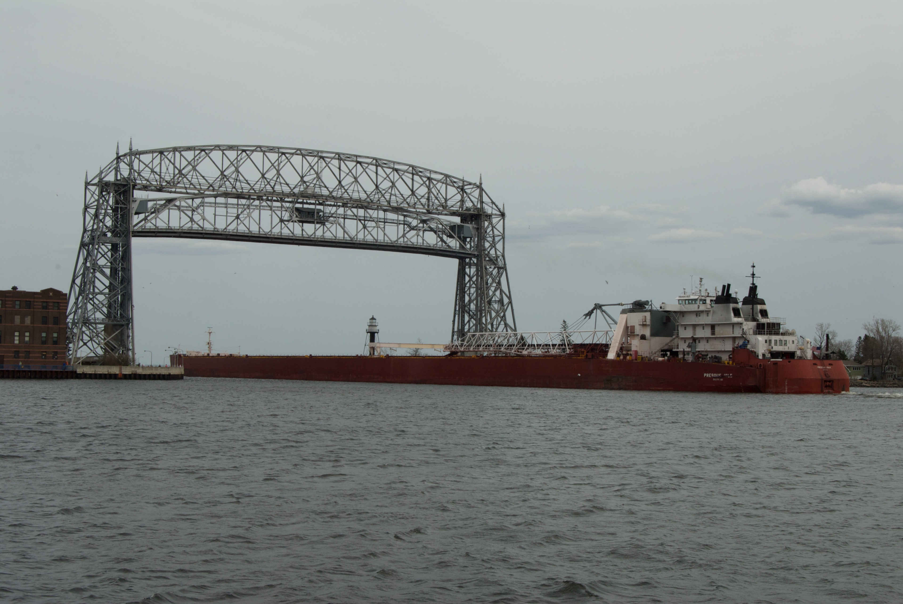 The following is the author's description of the photograph quoted directly from the photograph's Flickr page."The Presque Isle is an articulated tug and barge combination that is 1000 feet long when they are mated together. Both the barge and the tug are named Presque Isle. Presque Isle is the largest ATB operating on the Great Lakes. "